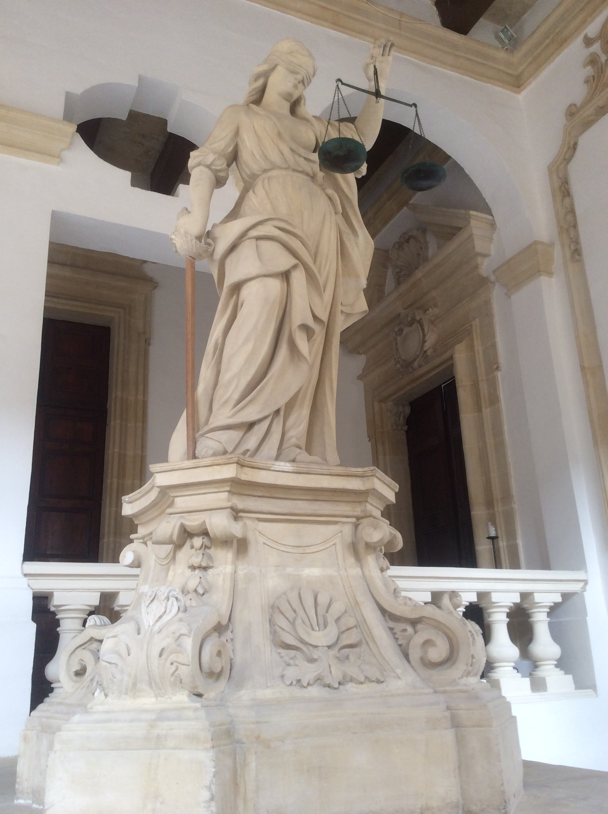 Statue of Justice at the Castellania in Valletta, Malta